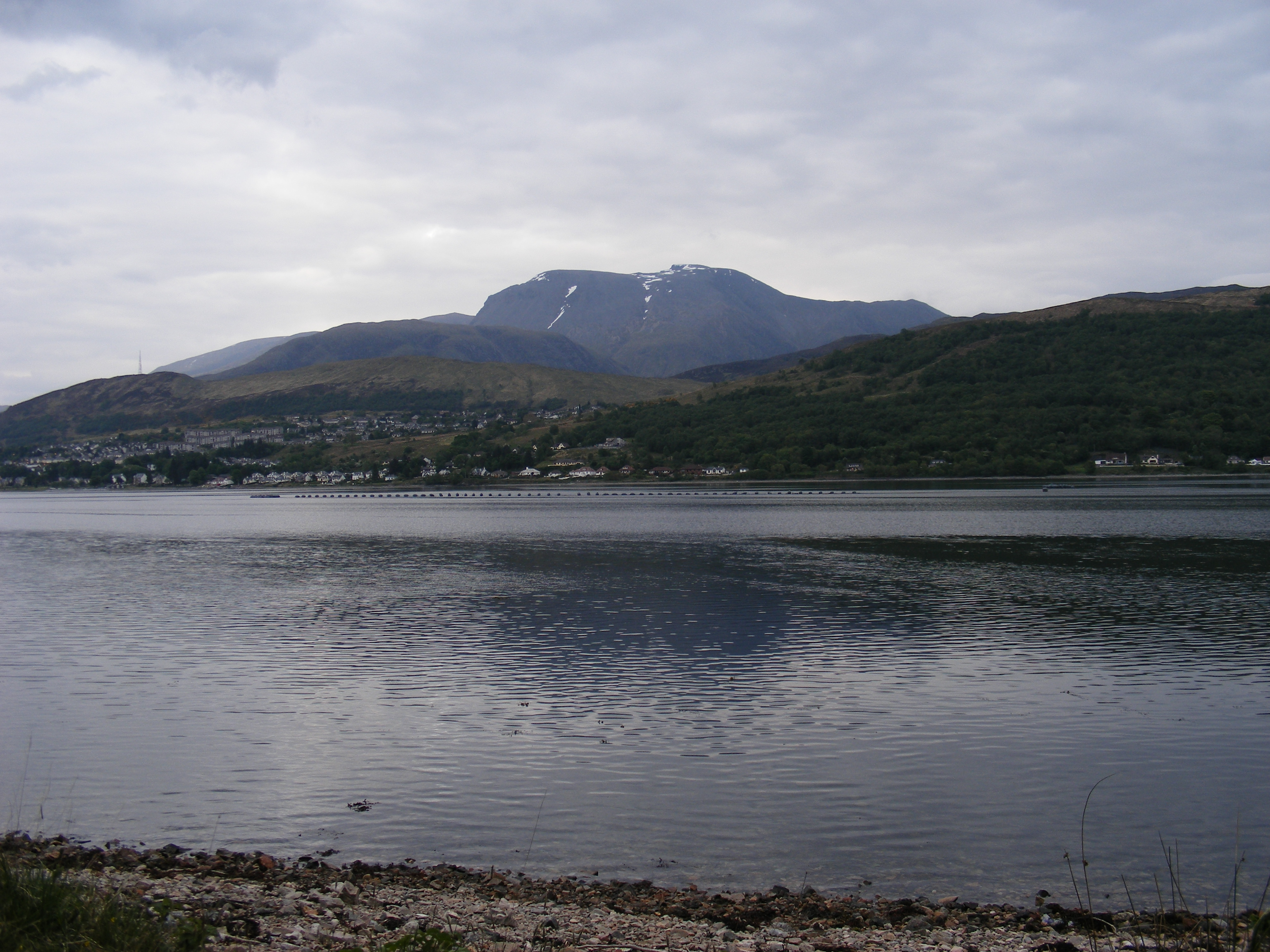 Ben Nevis and Fort William, seen under high cloud from across Loch Linnhe during a dry spell in May 2008. Late spring is probably the best time of year to see Ben Nevis, but in all seasons, clouds obscure the summit more often than not.